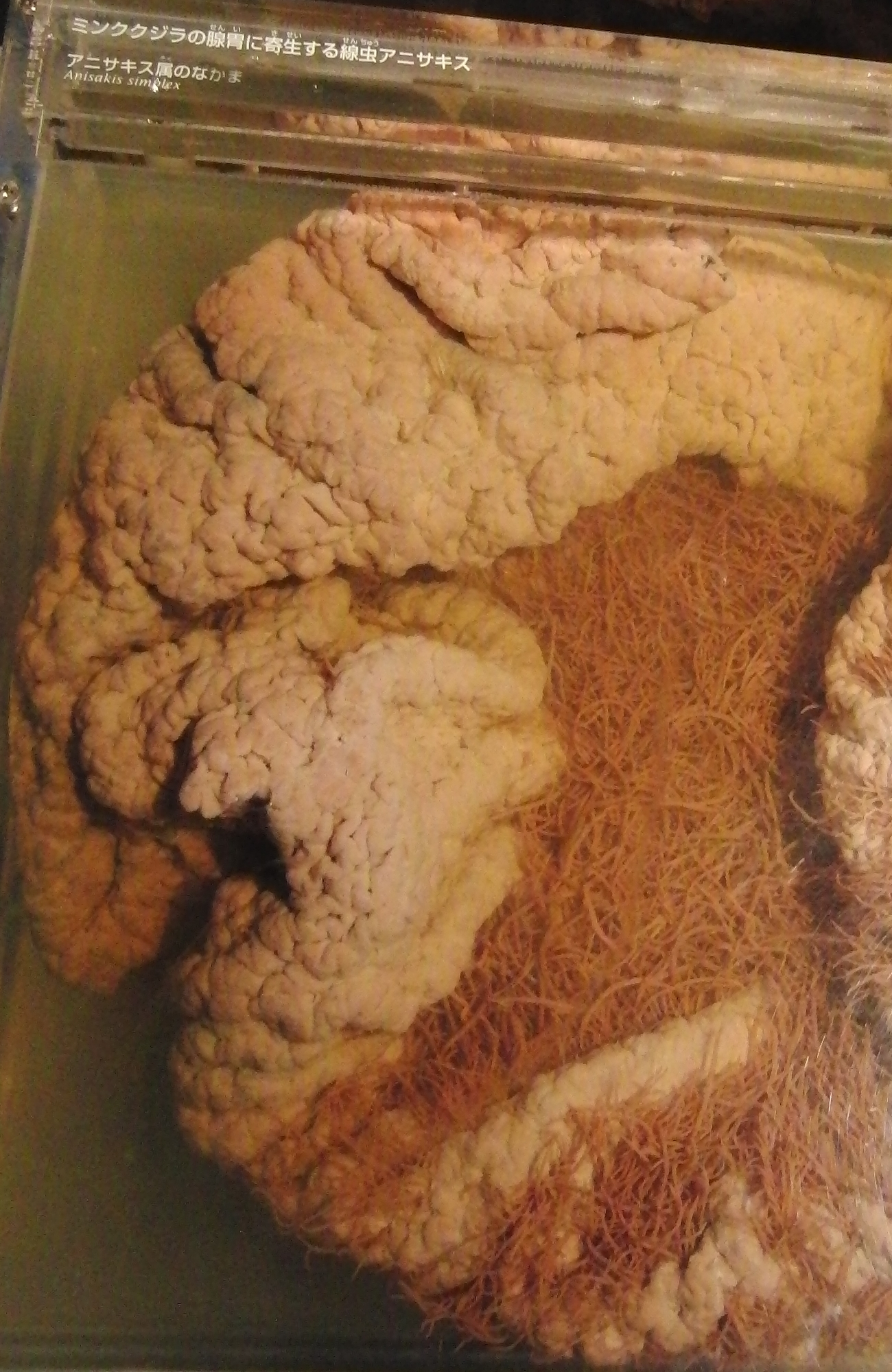 Anisakis (Anisakis simplex) which is parasitic on glandular stomach of common minke whale (Balaenoptera acutorostrata). Exhibit in the National Museum of Nature and Science, Tokyo, Japan.